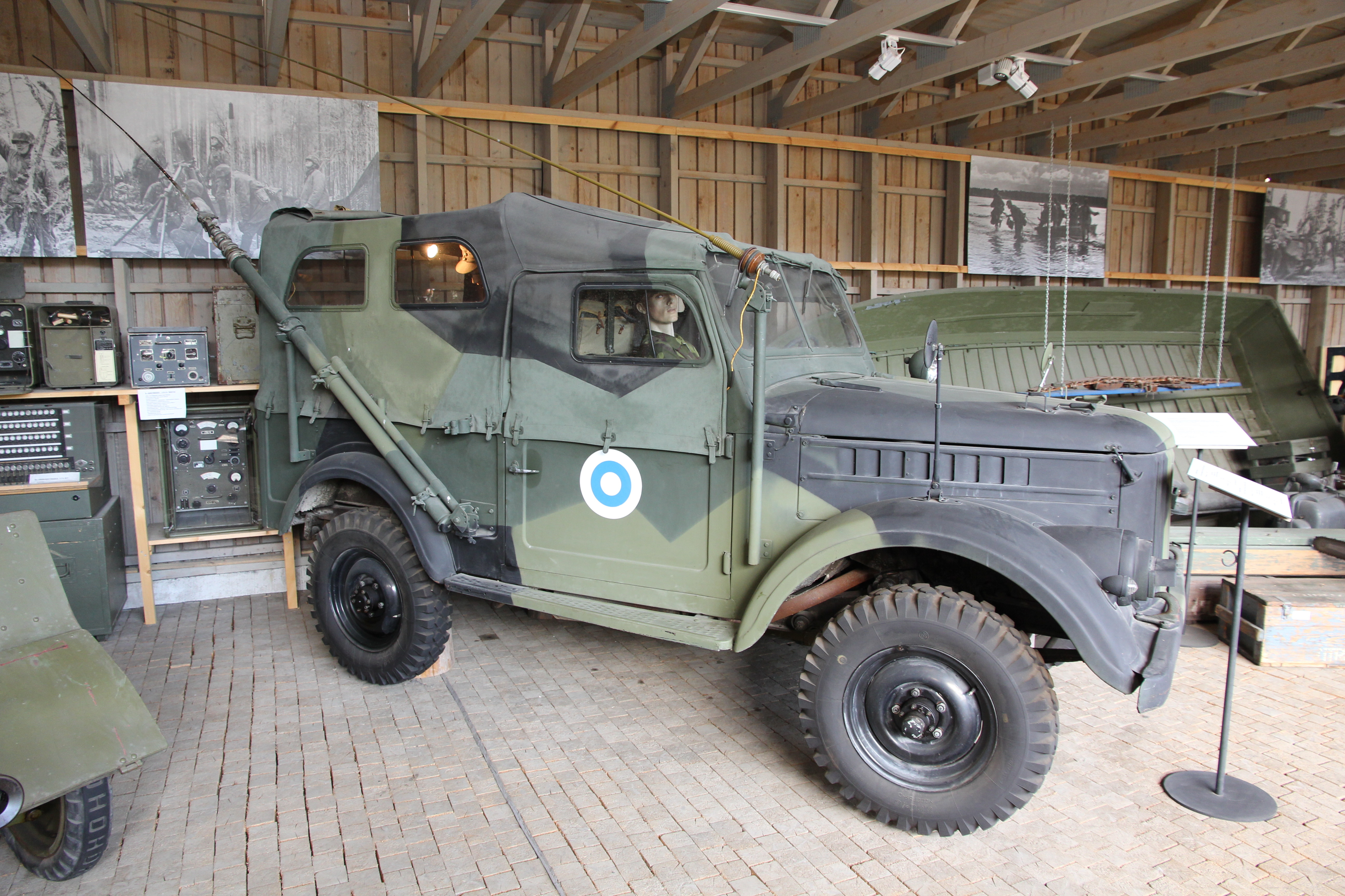 GAZ-69 radio car. Photographed in RUK-museum in Hamina.